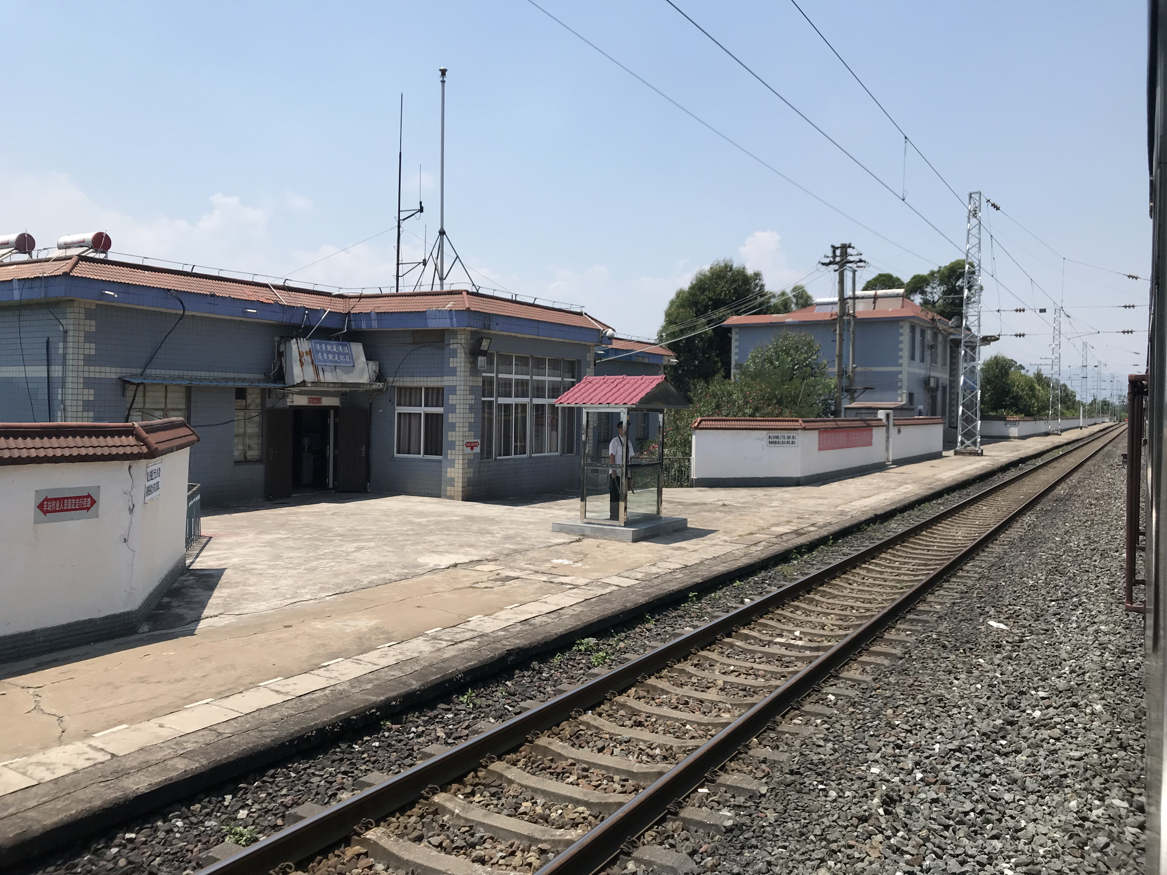 201908 Conductor of Xichangbei Station